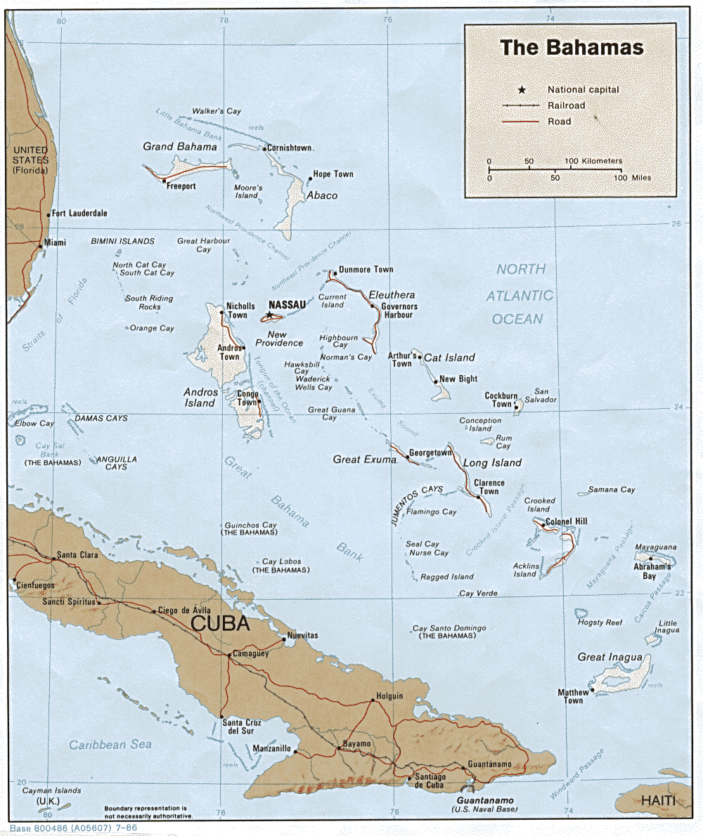 Map of the Bahamas.